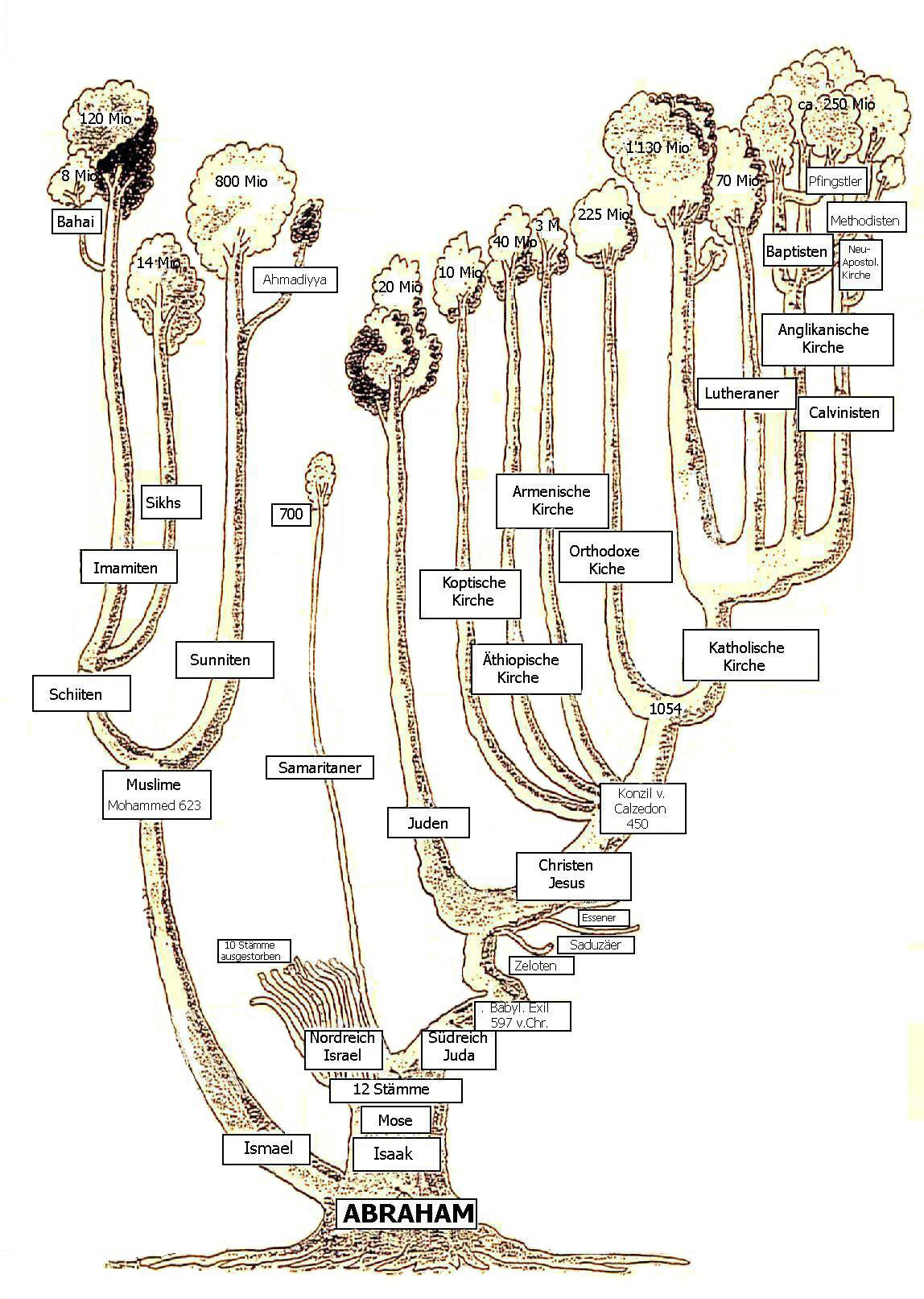 Son's of Abraham